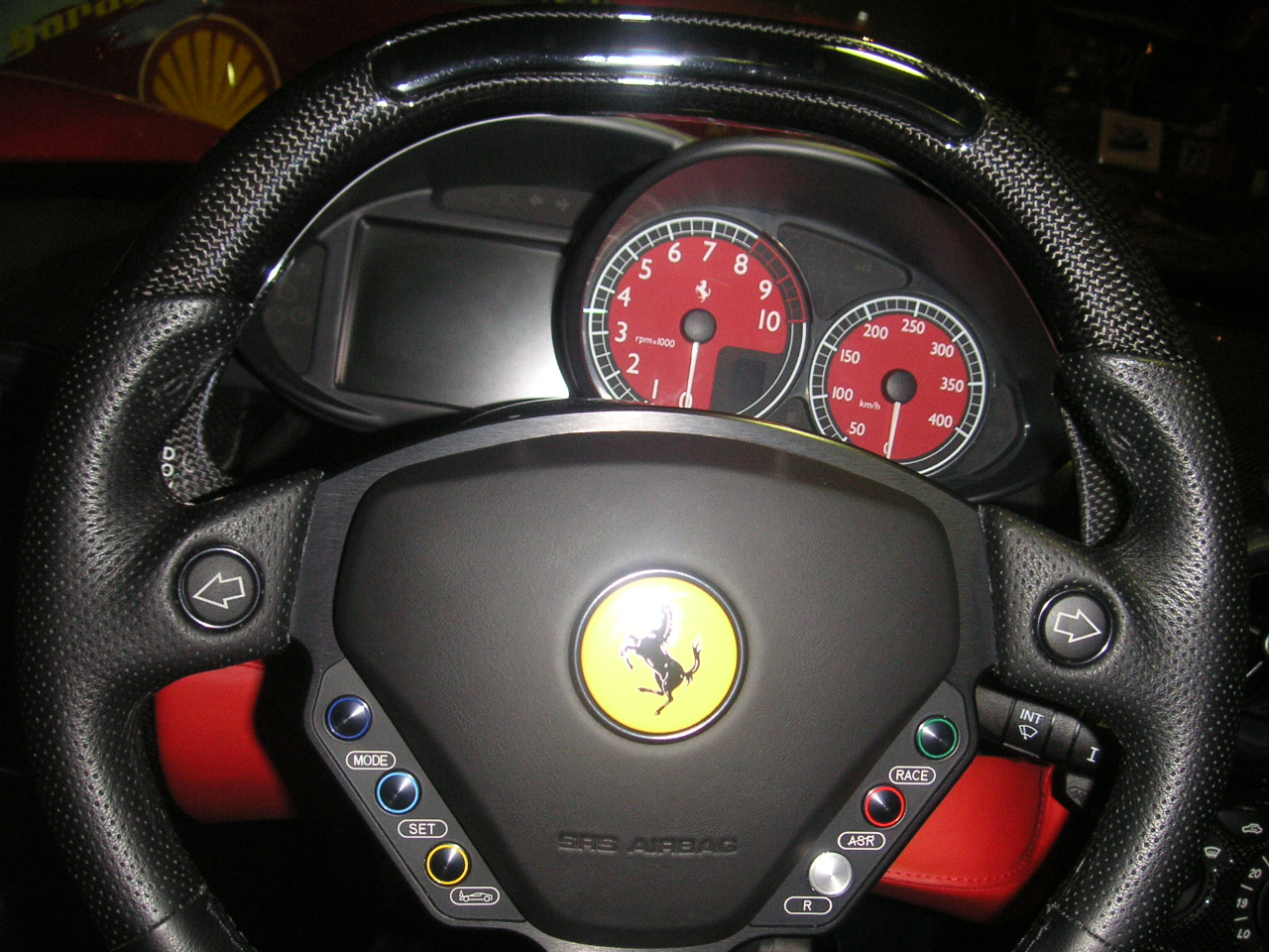 Indicator and steering of Enzo Ferrari